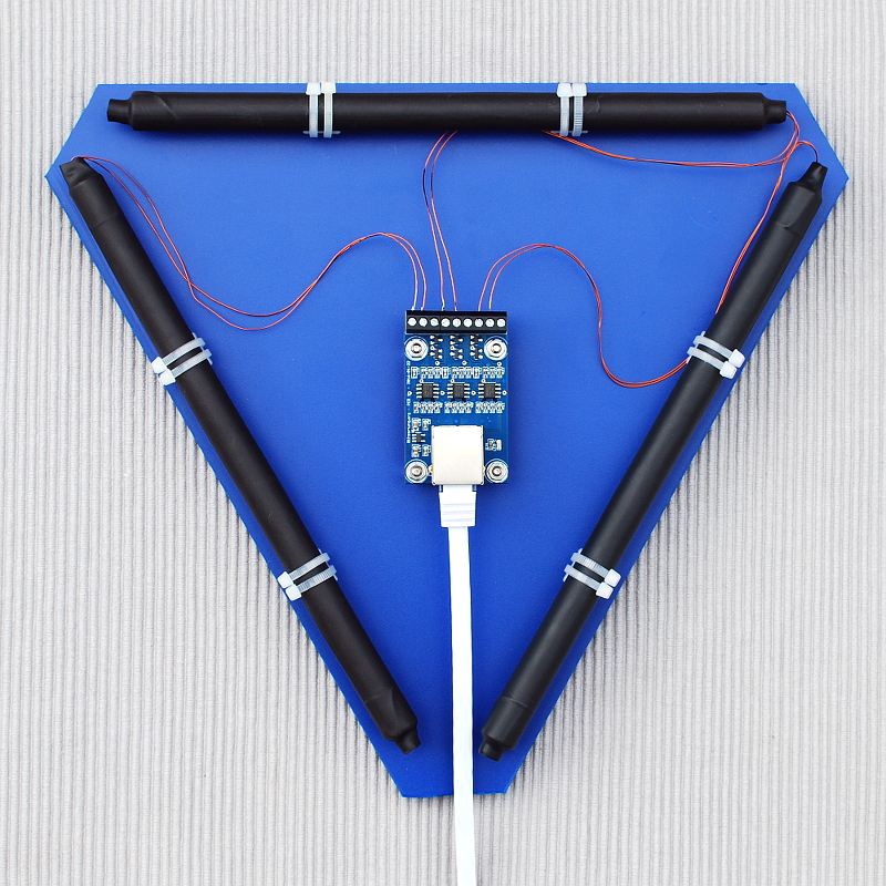 's System Blue H-Field Antenna with three ferrite antennas and analog electronic module.